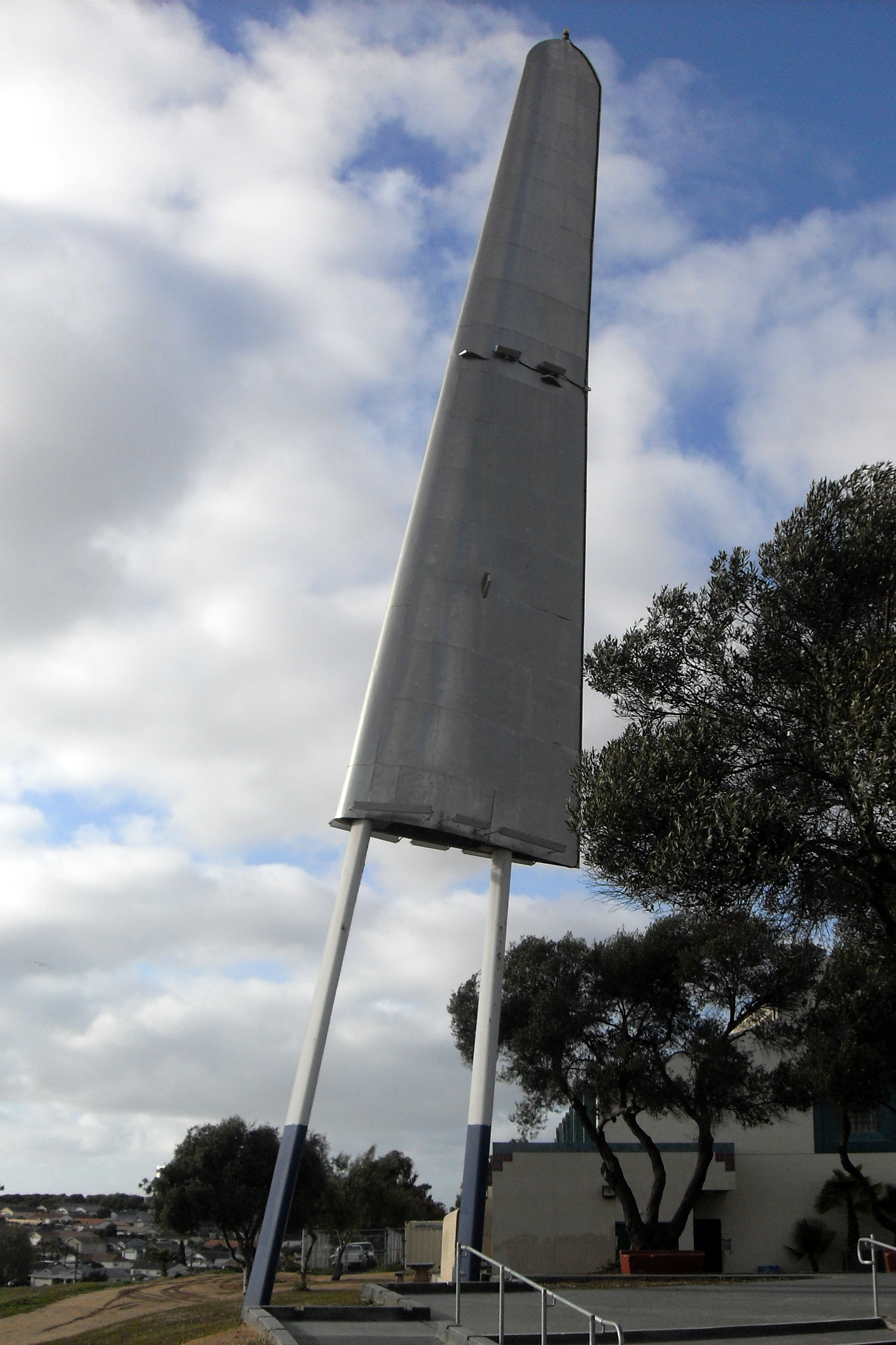 Silver Wing Monument commemorating the first controlled winged flight by John J. Montgomery in August, 1883 in Otay Mesa, San Diego, California.